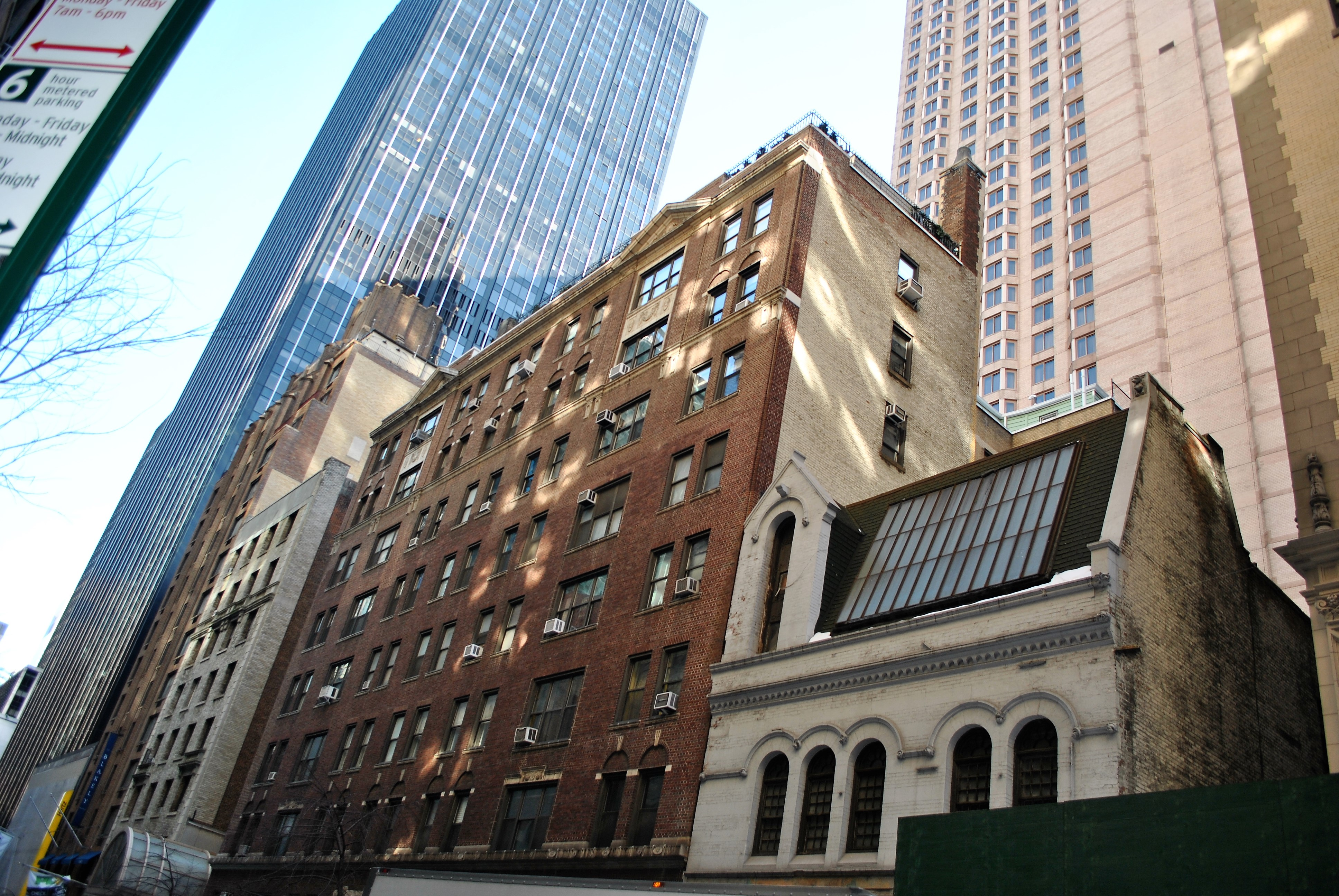 Image originally published in Queer Places: Retracing the Steps of LGBTQ people around the World Authored by Elisa Rolle